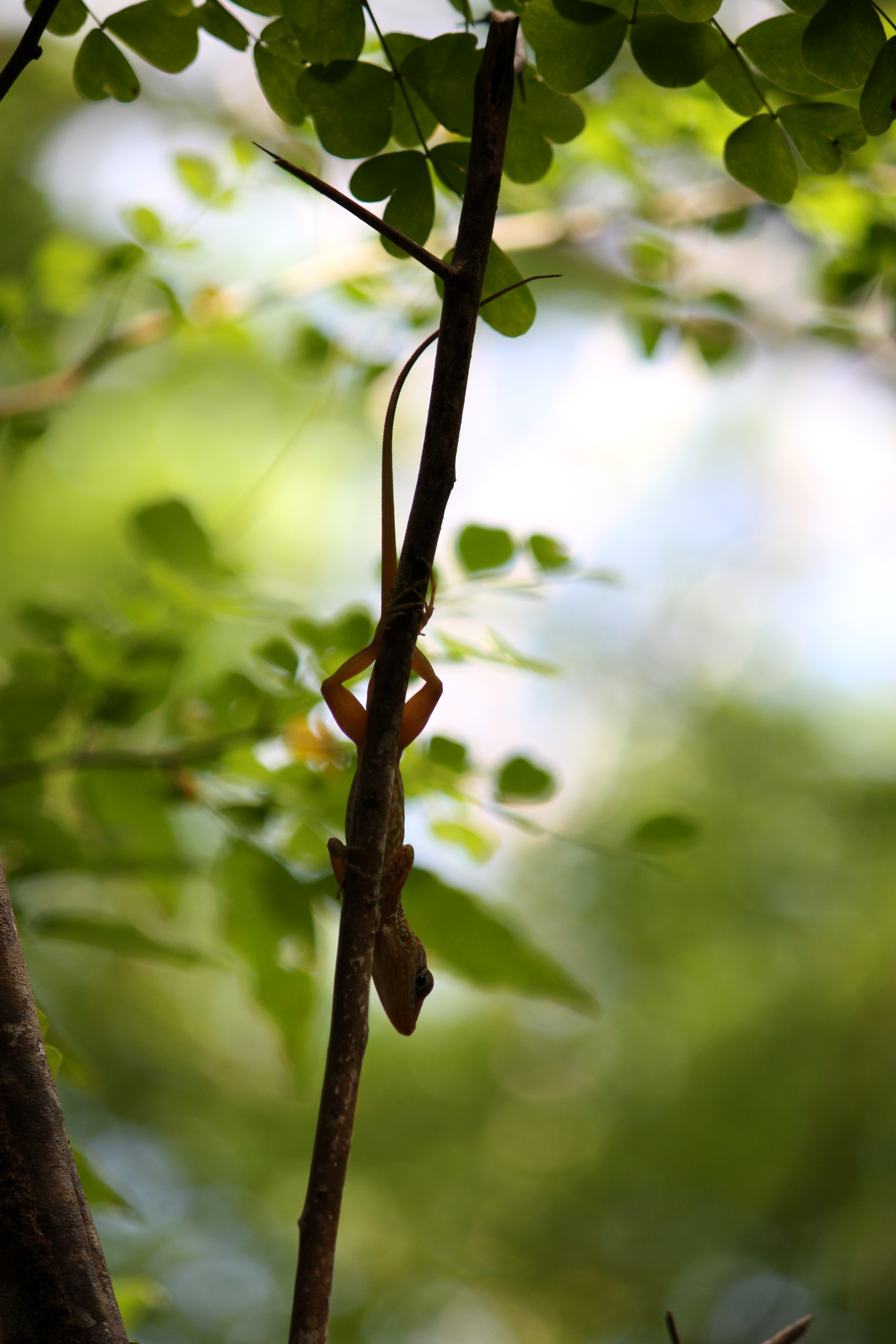 Dominican Anole (Anolis oculatus) clinging to a tree. North Caribbean ecotype (A. o. cabritensis). Cabrits National Park, Dominica.